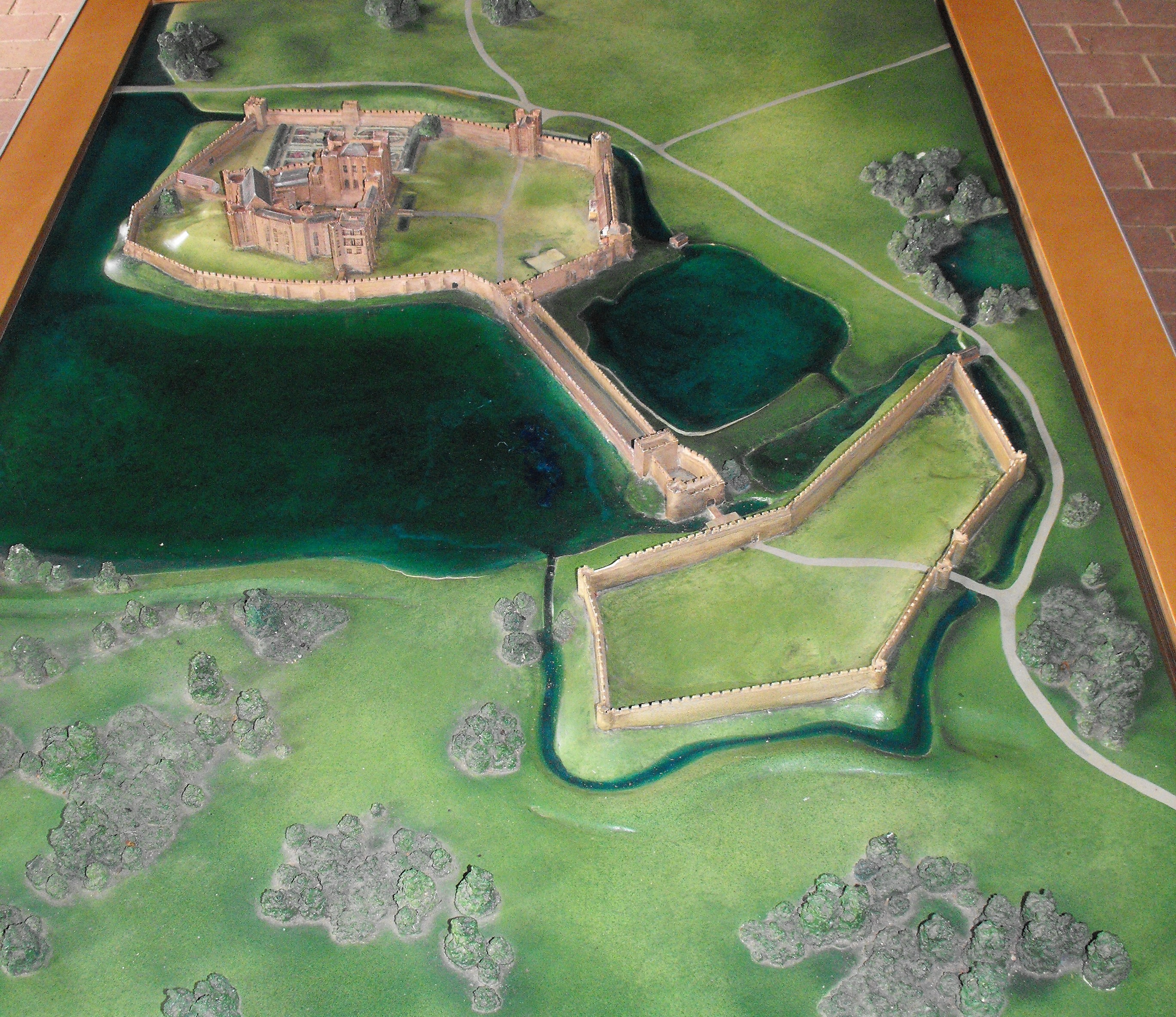 Am model of Kenilworth Castle on permanent display in the site's visitor centre. The model is a reconstruction of how the castle may have appeared in the late 16th century; the caption below it (out of shot) reads "Kenilworth Castle: This model shows the castle as it may have appeared in about 1575–80."